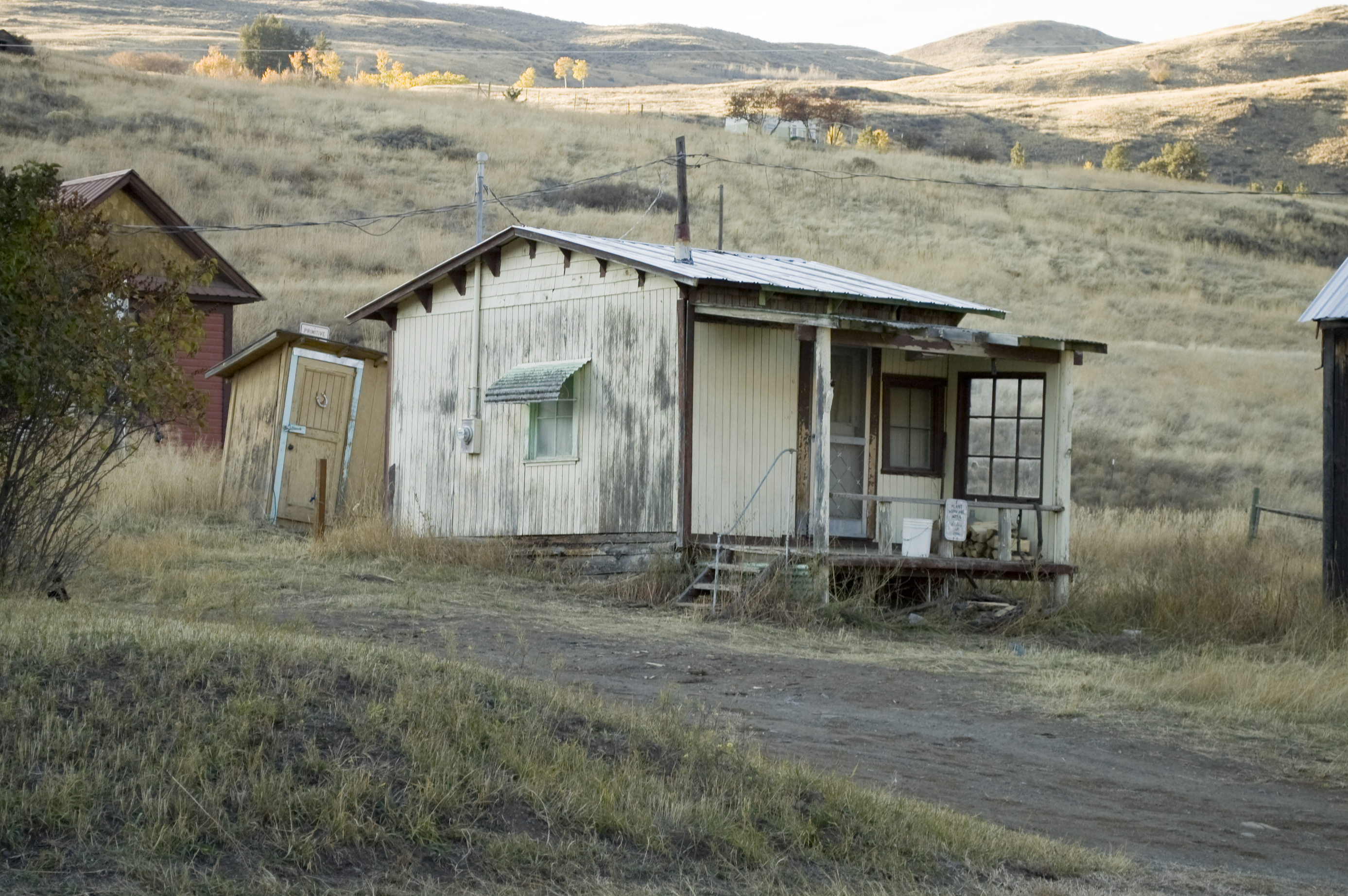 A photograph of a cabin in Chesaw, WA